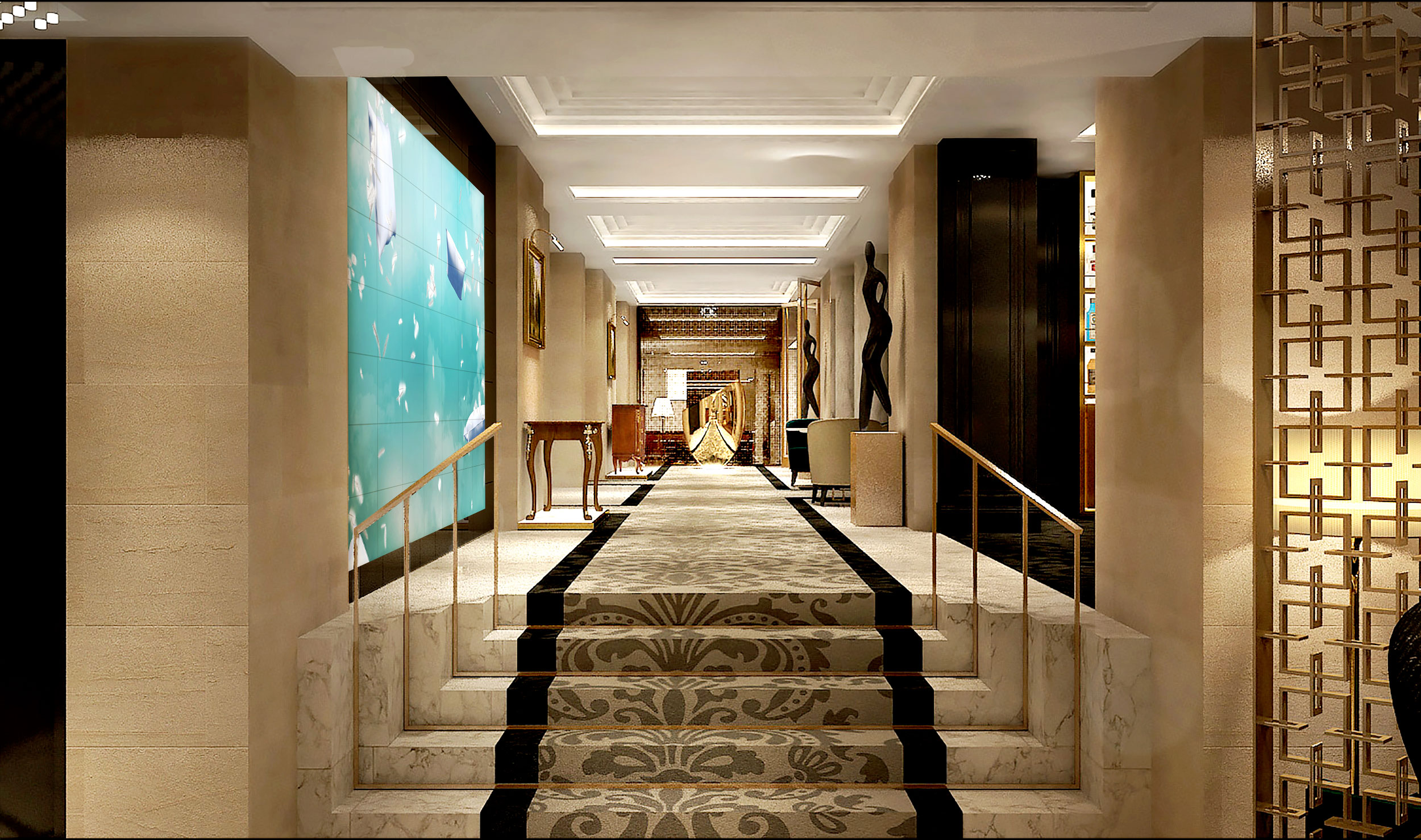 Float4 interactive wall in the hotel Lobby